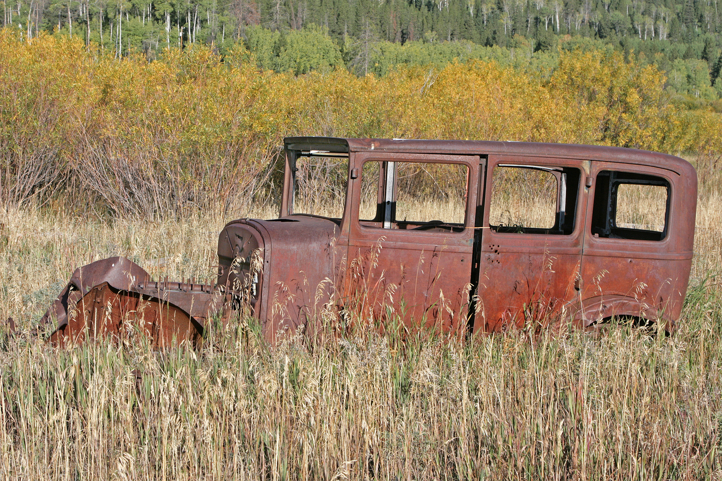 Fall in Wyoming: an old Car in a field near Star Valley in Wyoming, USA.